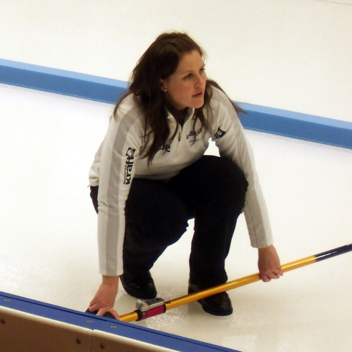 Curling player Christina Bertrup after releasing a stone for team Skellefteå during Swedish Championship competitons in Gärdehov, Sundsvall, Sweden